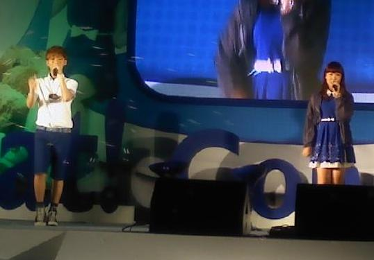 Akdong Musician in M-Stage near Gangnam station